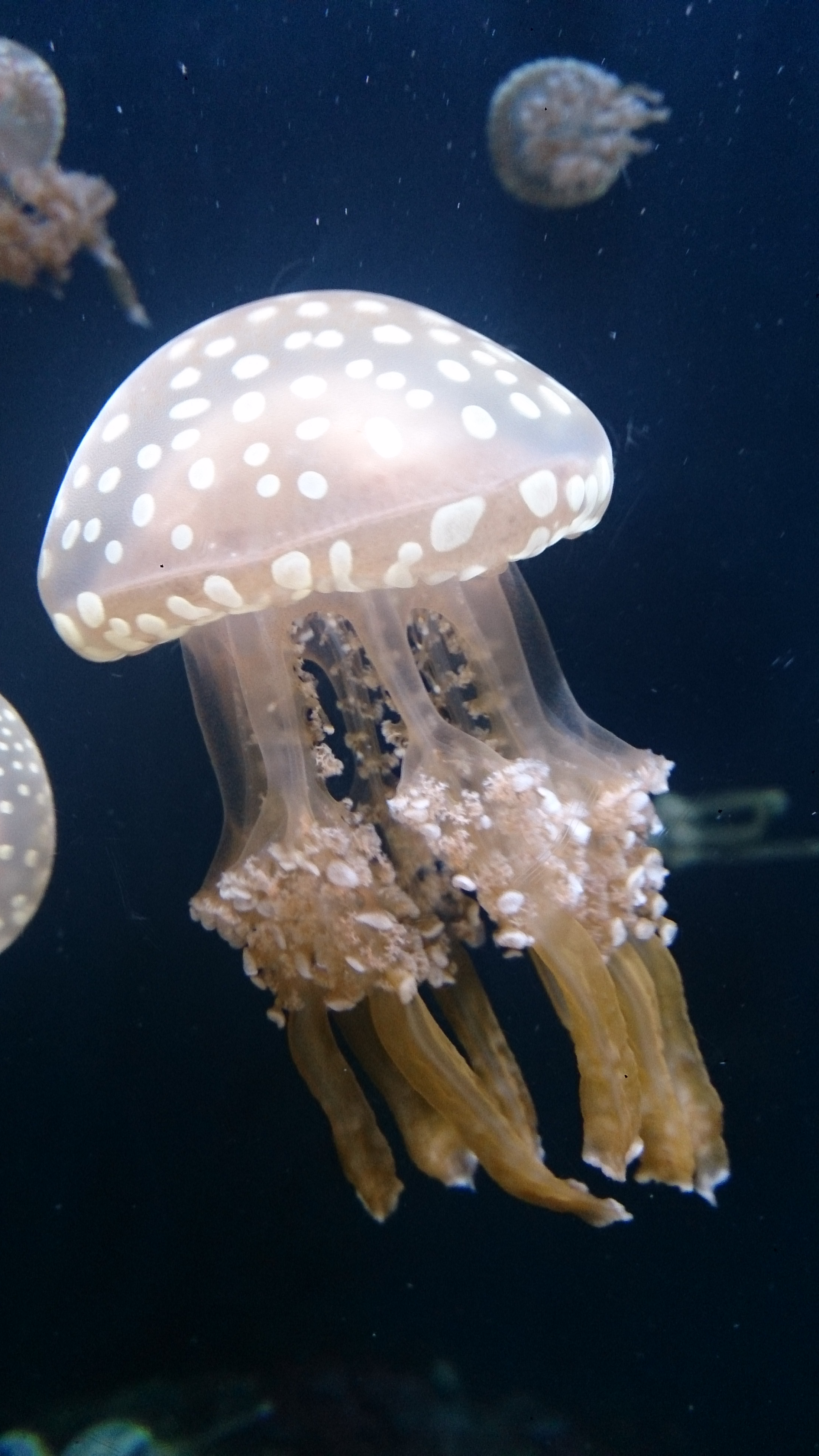 Jellyfish happily swimming